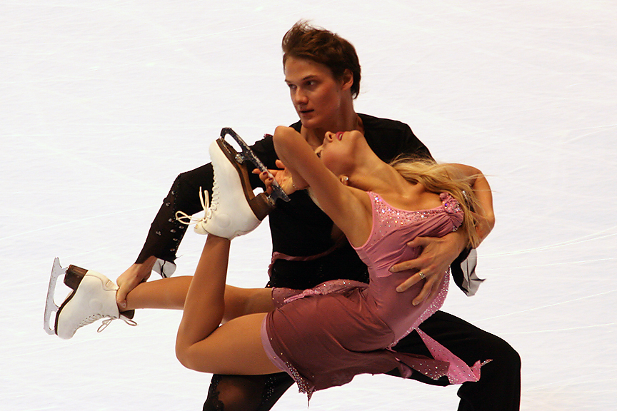 Natalia Mikhailova & Arkadi Sergeev perform a lift at the 2006 Skate America.